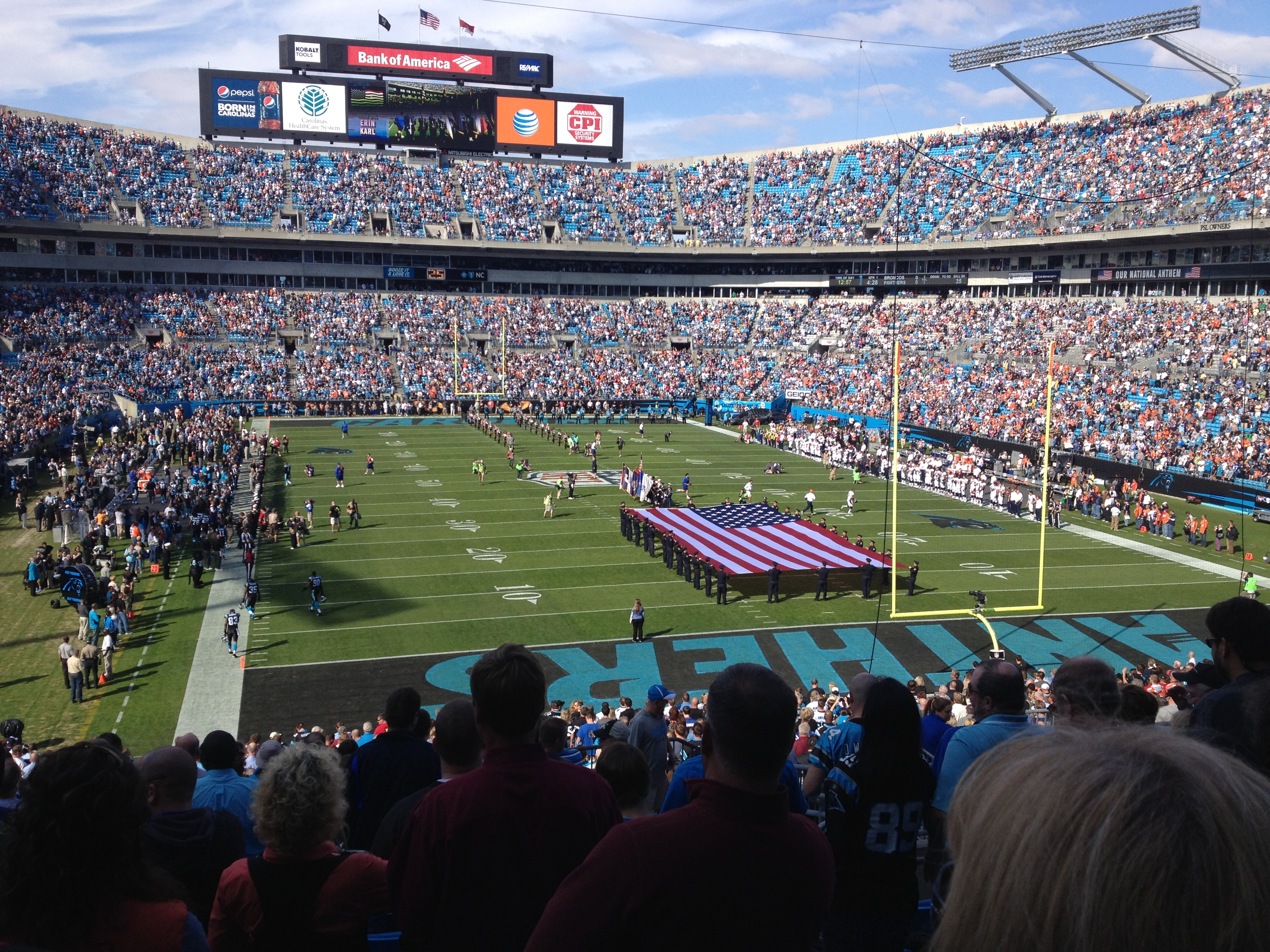 Denver Broncos vs. The Carolina Panthers during a November 11 battle at Bank of American Stadium